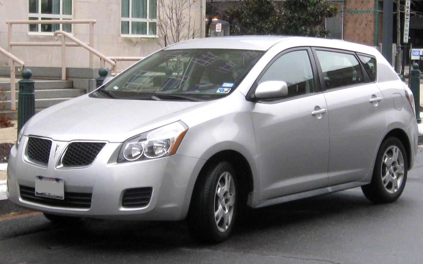 2009-2010 Pontiac Vibe photographed in Washington, D.C., USA.